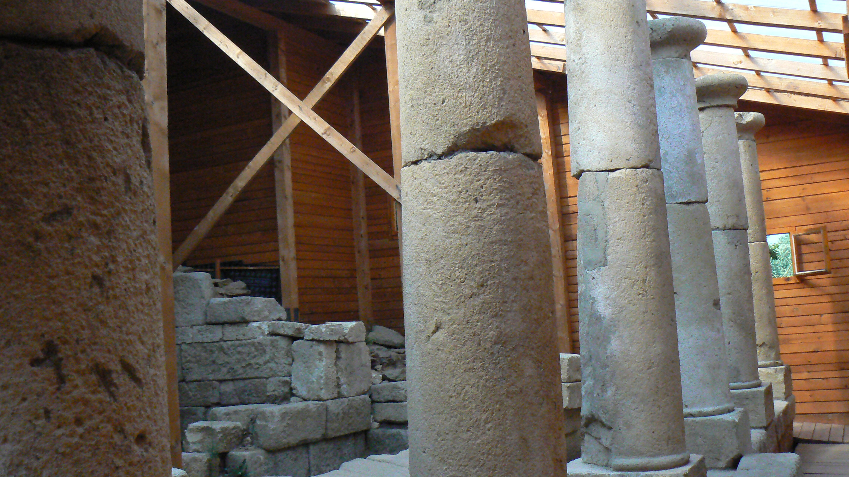 Thracian tumulus "Horizont" near the village of Starosel, Bulgaria. Unique with the colonnade of 10 columns in early Dorian style.